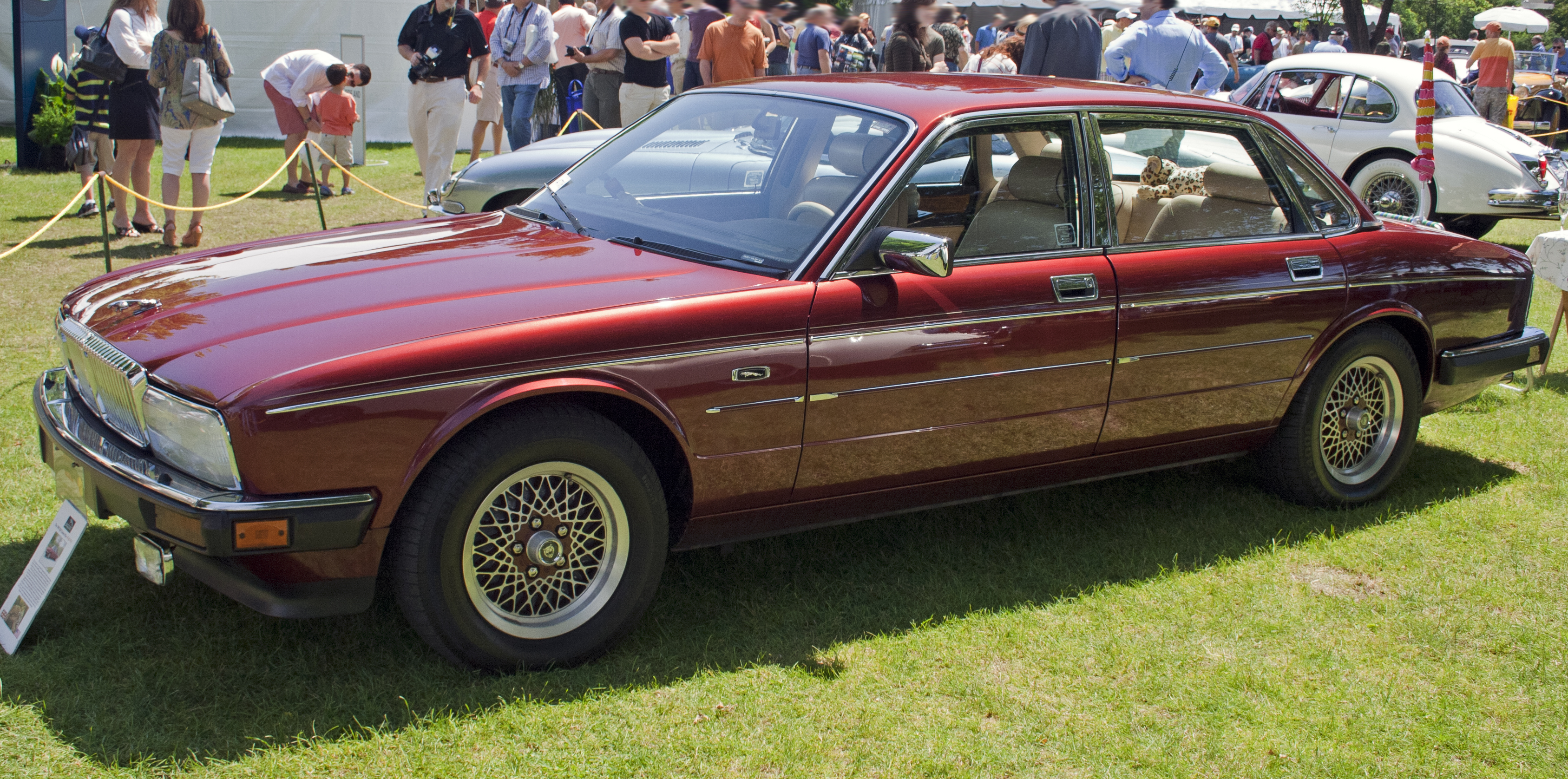 1990 Jaguar Vanden Plas Majestic at the 2012 Greenwich Concours d'Elegance. This special US-market version for 1990 is a regular Vanden Plas (equivalent to the Daimler in many markets), fitted with diamond polished alloy wheels, comfy sheepskin rugs, Connelly leather interior, a Regency Red paintjob, and divers other extras. 527 were built.